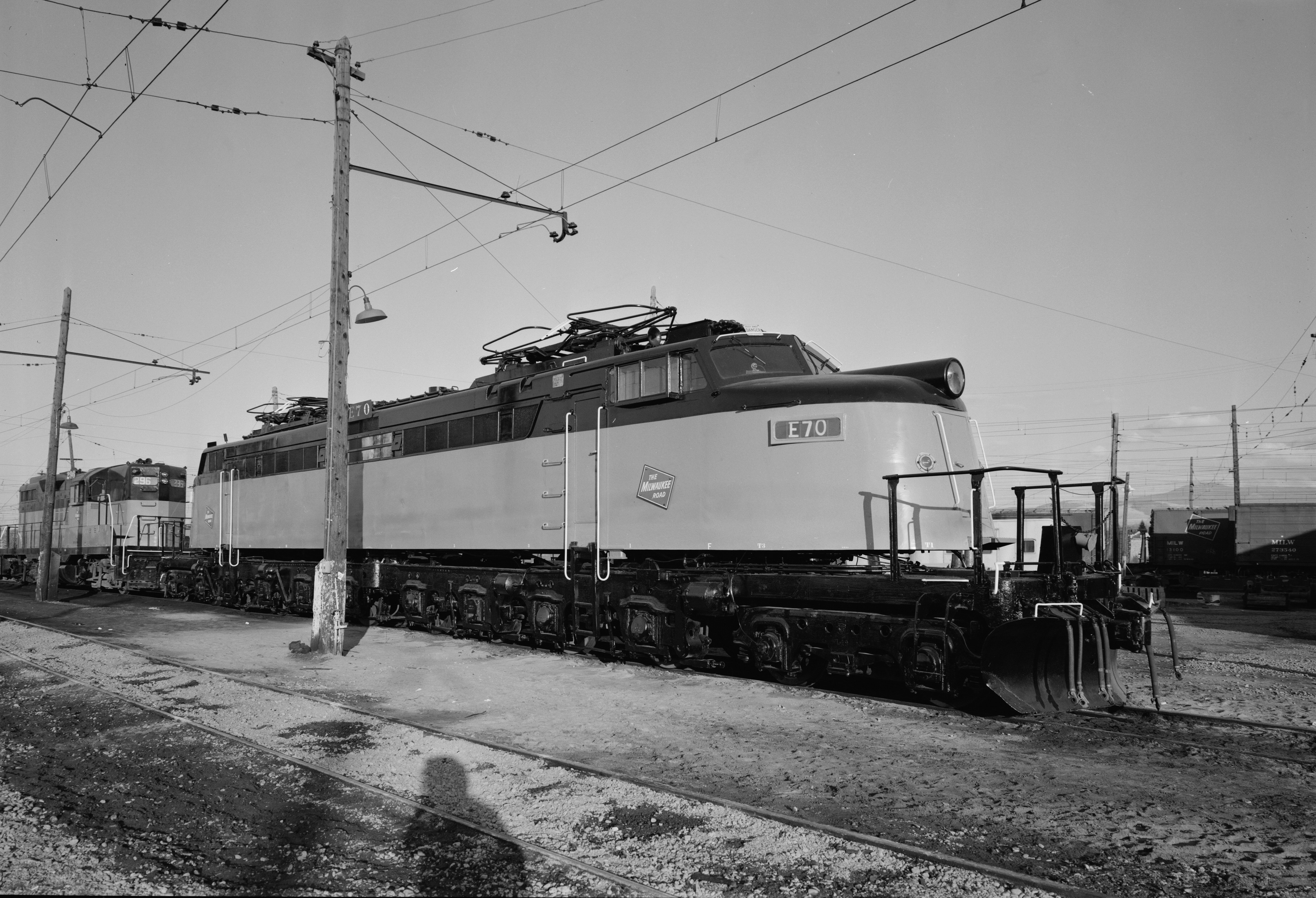 Milwaukee Road "Little Joe" electric locomotive E70.